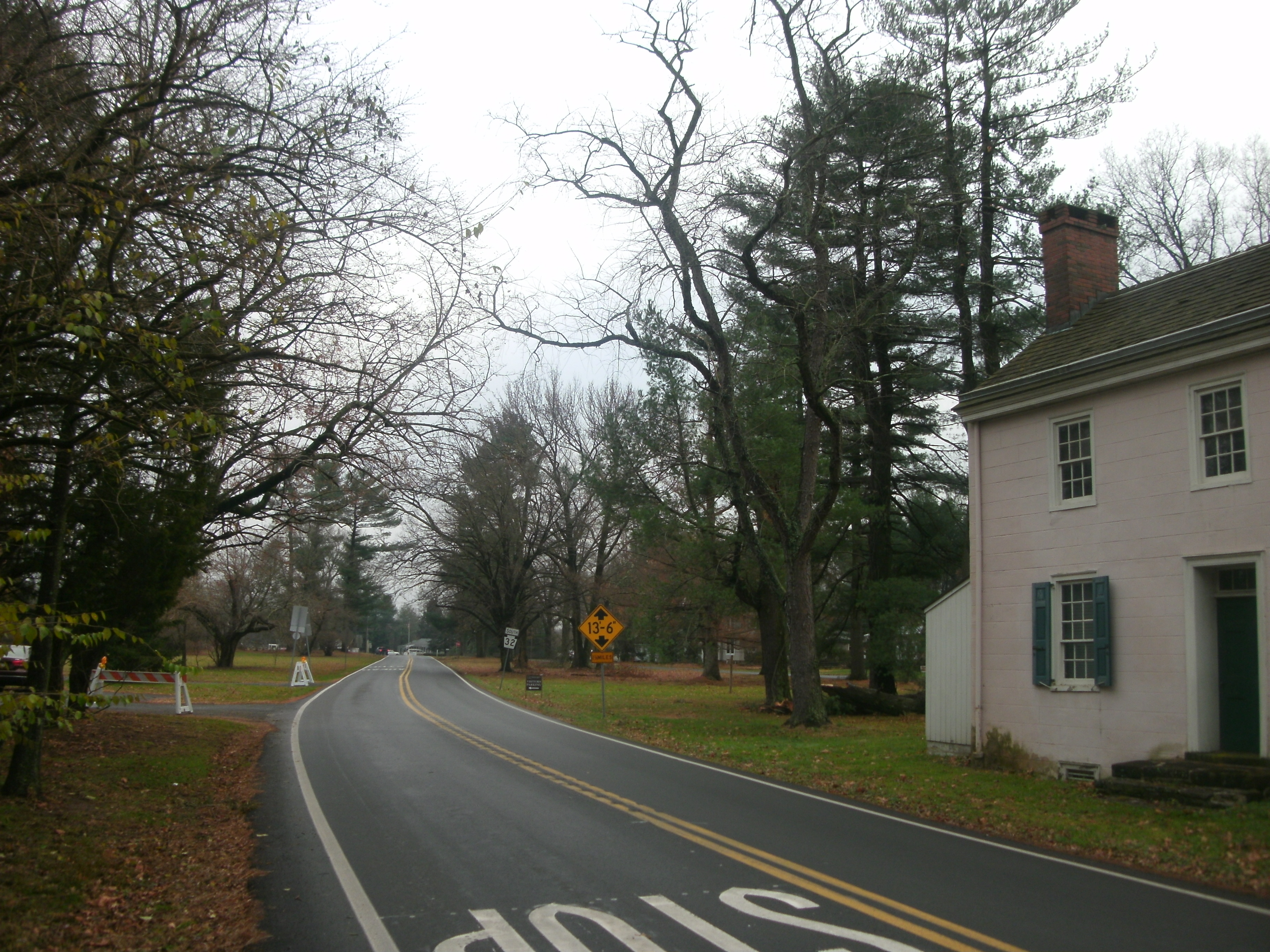 Pennsylvania Route 32 southbound through the village of Washington Crossing, Pennsylvania.